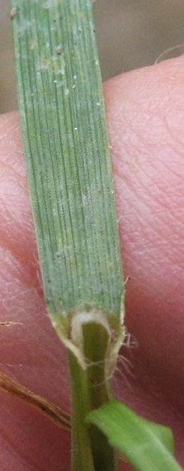 Lolium perenne also known as perennial ryegrass showing ribbed leaf and ligule